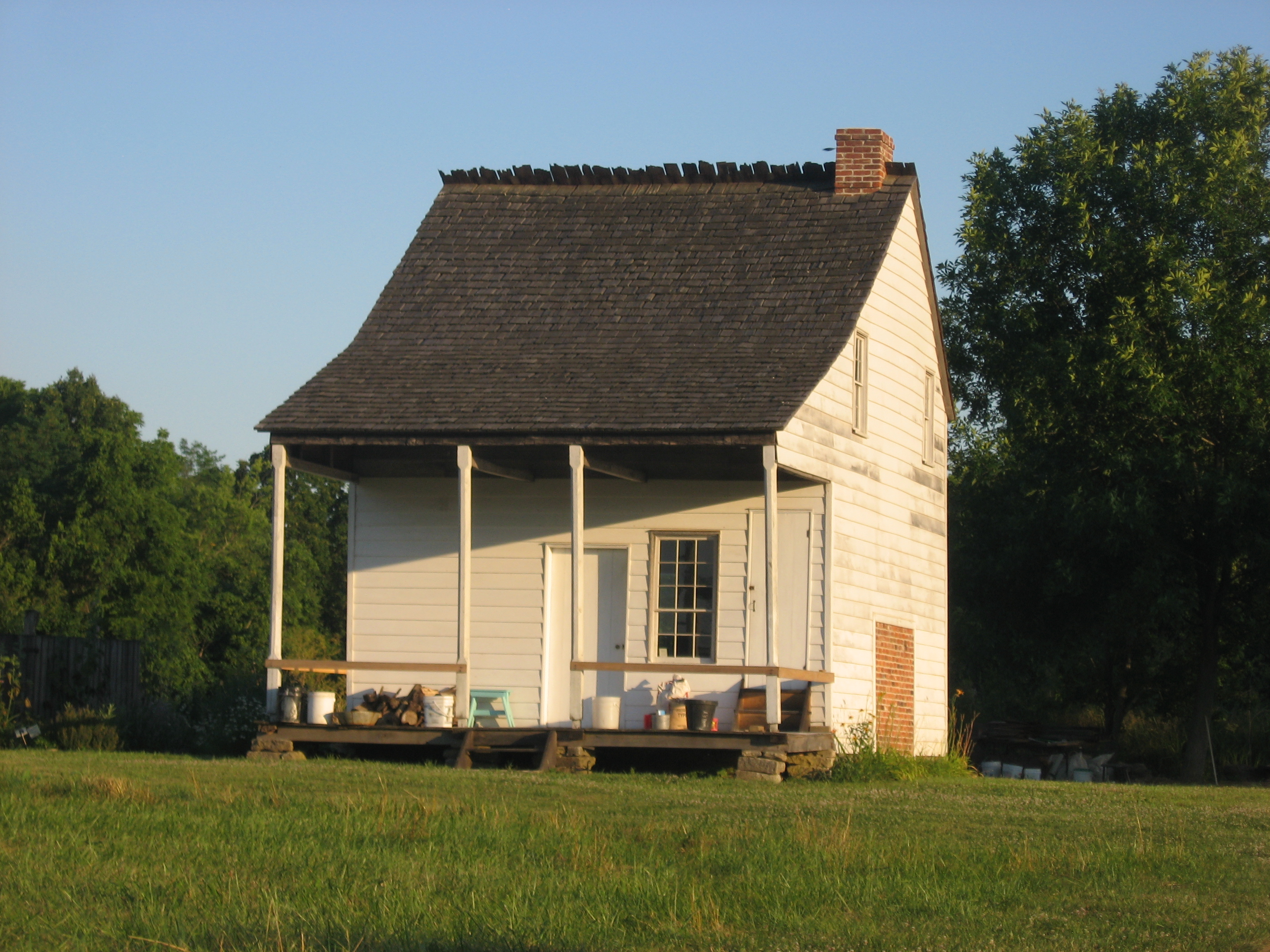 Roadside view of the front of the Venoge Farmhouse, located at 111 State Road 129 west of Vevay in Craig Township, Switzerland County, Indiana, United States. Built in 1805, it is listed on the National Register of Historic Places.